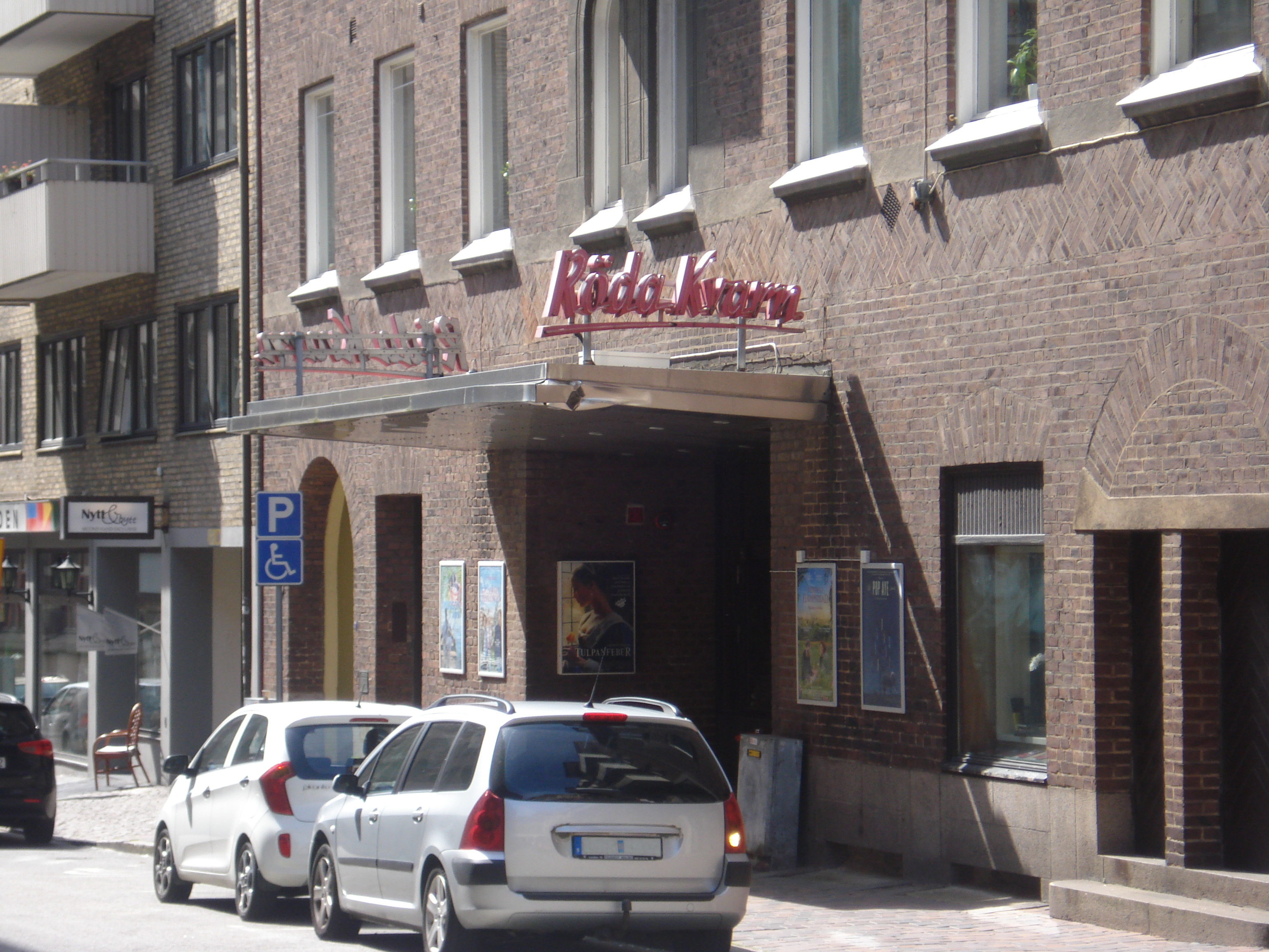 The movie theater Röda kvarn in Helsingborg, Sweden.